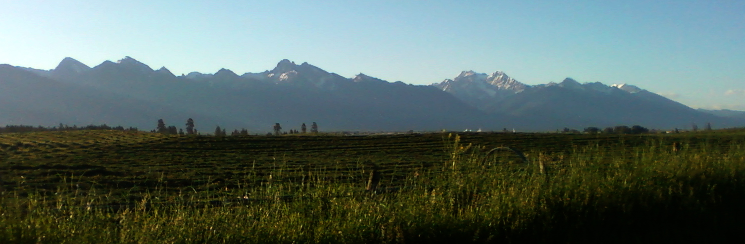 The Mission Mountains as seen from Leighton Road near the Ronan Golf Course.